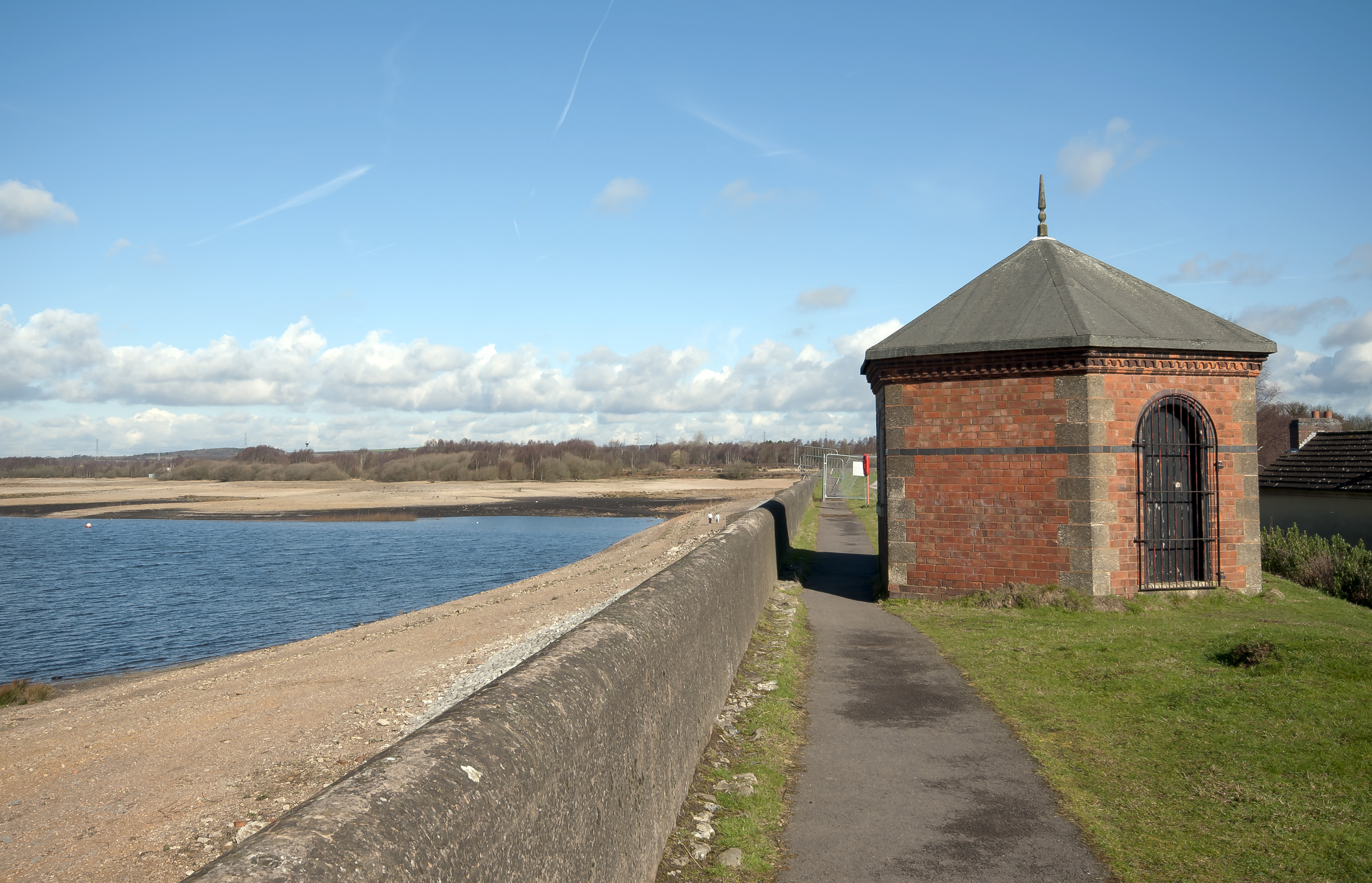 The Valve House at Chasewater Reservoir, built in 1905 by the Birmingham Canal Navigations.